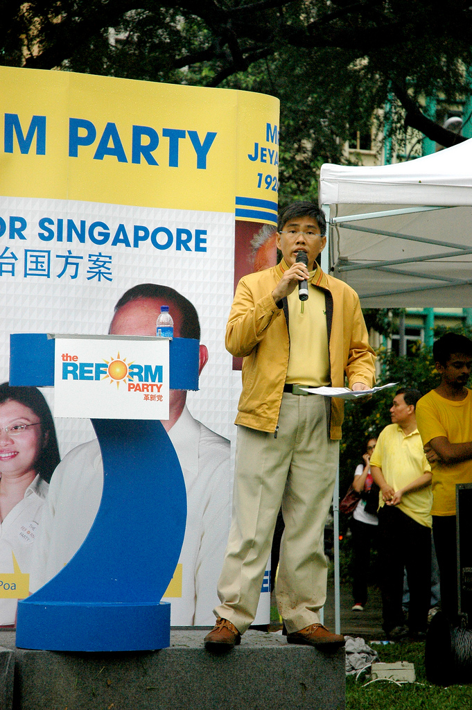 Tony Tan Lay Thiam of the Reform Party speaking during a rally at Speakers' Corner, Singapore. Tan and his wife Hazel Poa resigned from the Reform Party before the 2011 general election and stood as National Solidarity Party candidates instead. Tan is now a member of the 14th Central Executive Council of that party.